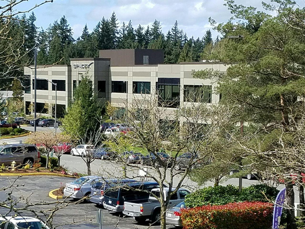 This is a photograph of the SpaceX satellite development facility in Redmond, Washington, USA (original facility, at 18390 NE 68th Street). Photo was taken in spring before the deciduous tree foliage blocked more of the building front., 2018. Facility closed after August 2018